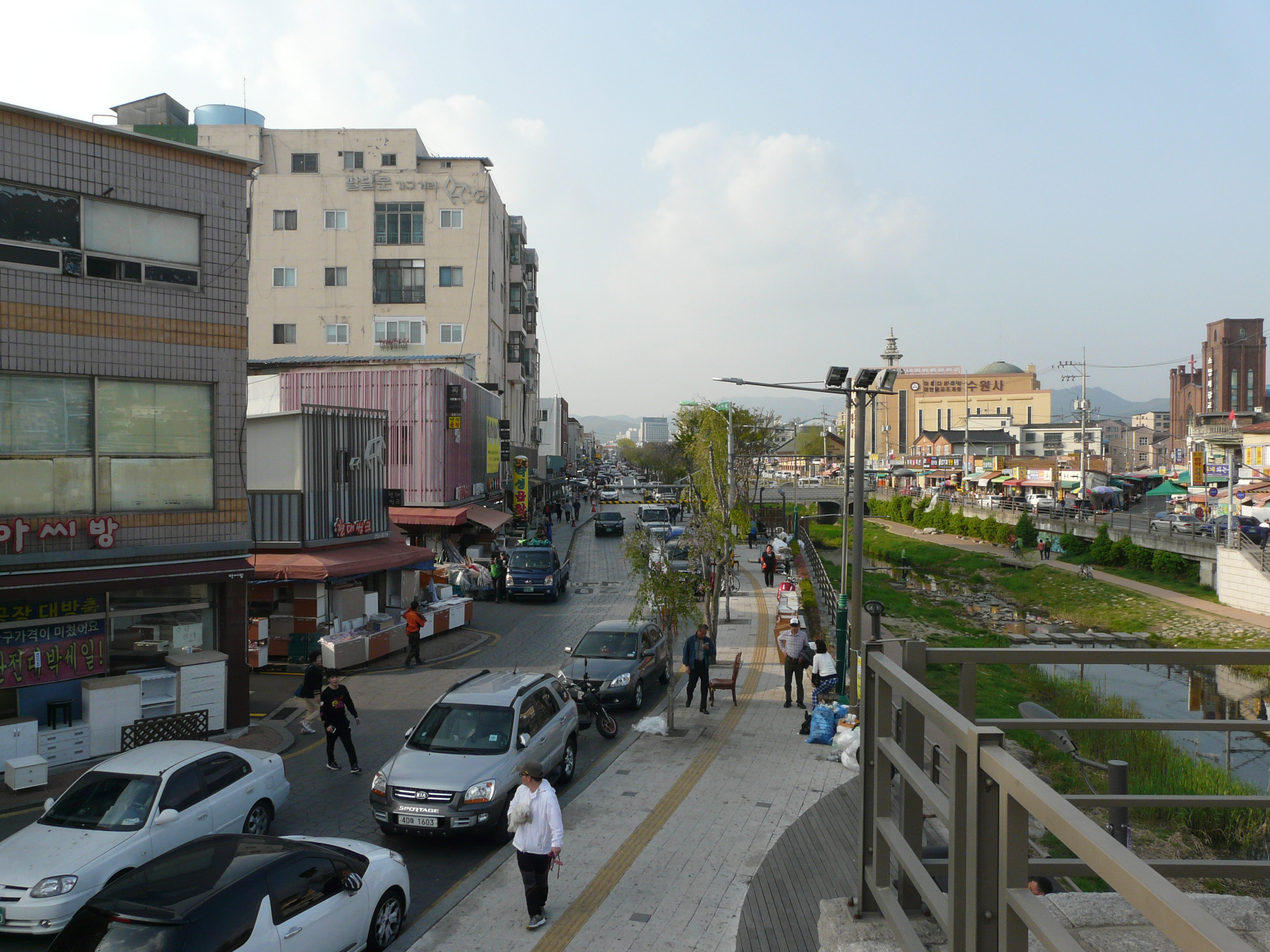 City of Suwon